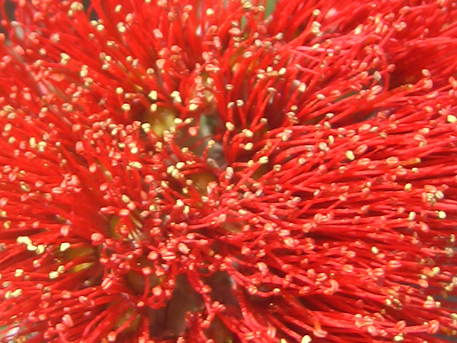 Closeup view of Pohutukawa flower.